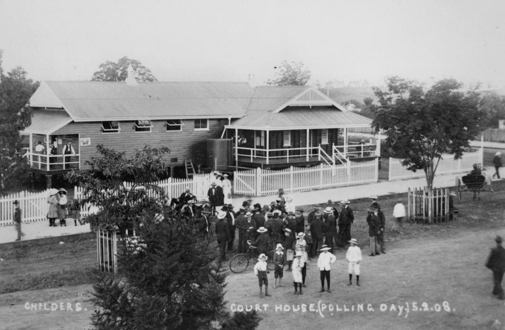 Childers Court House on polling day, 5 February 1908. First Court House erected before 1887. (Description supplied with photograph.).